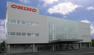 Chino fujioka factory